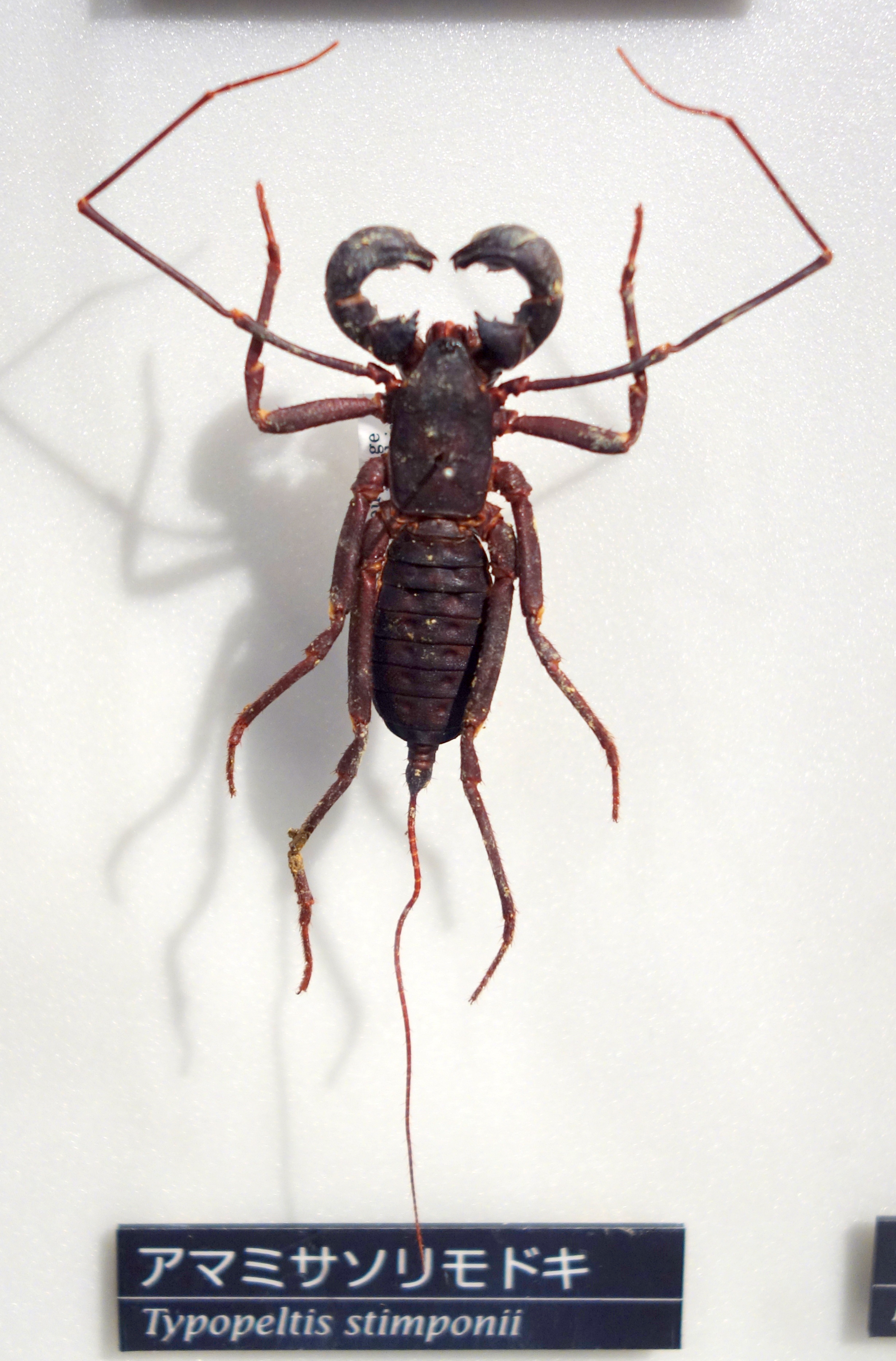 Exhibit in the National Museum of Nature and Science, Tokyo, Japan.